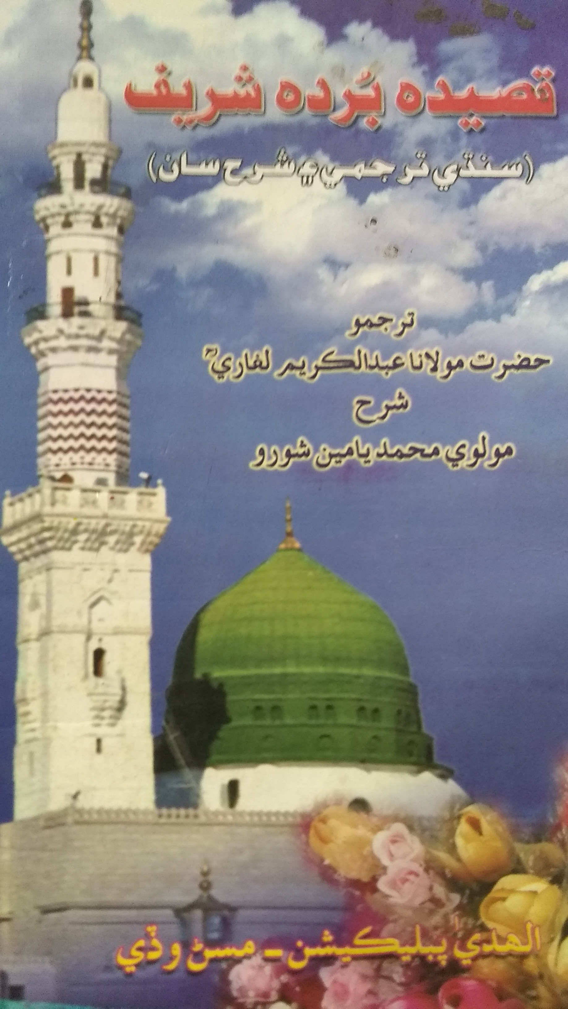 مولوی عبد الکریم